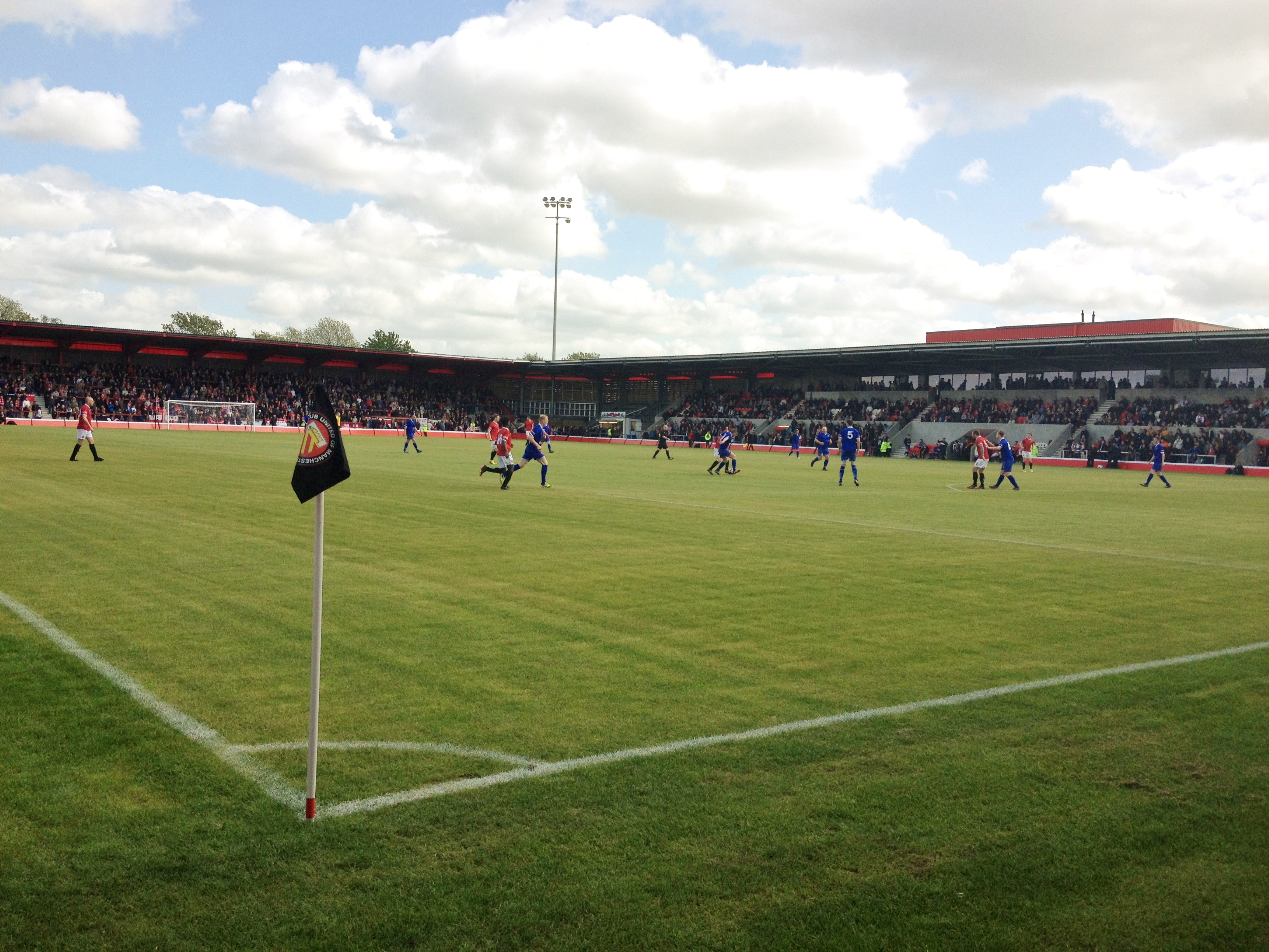 Broadhurst Park – corner flag. At FC United stadium test event.